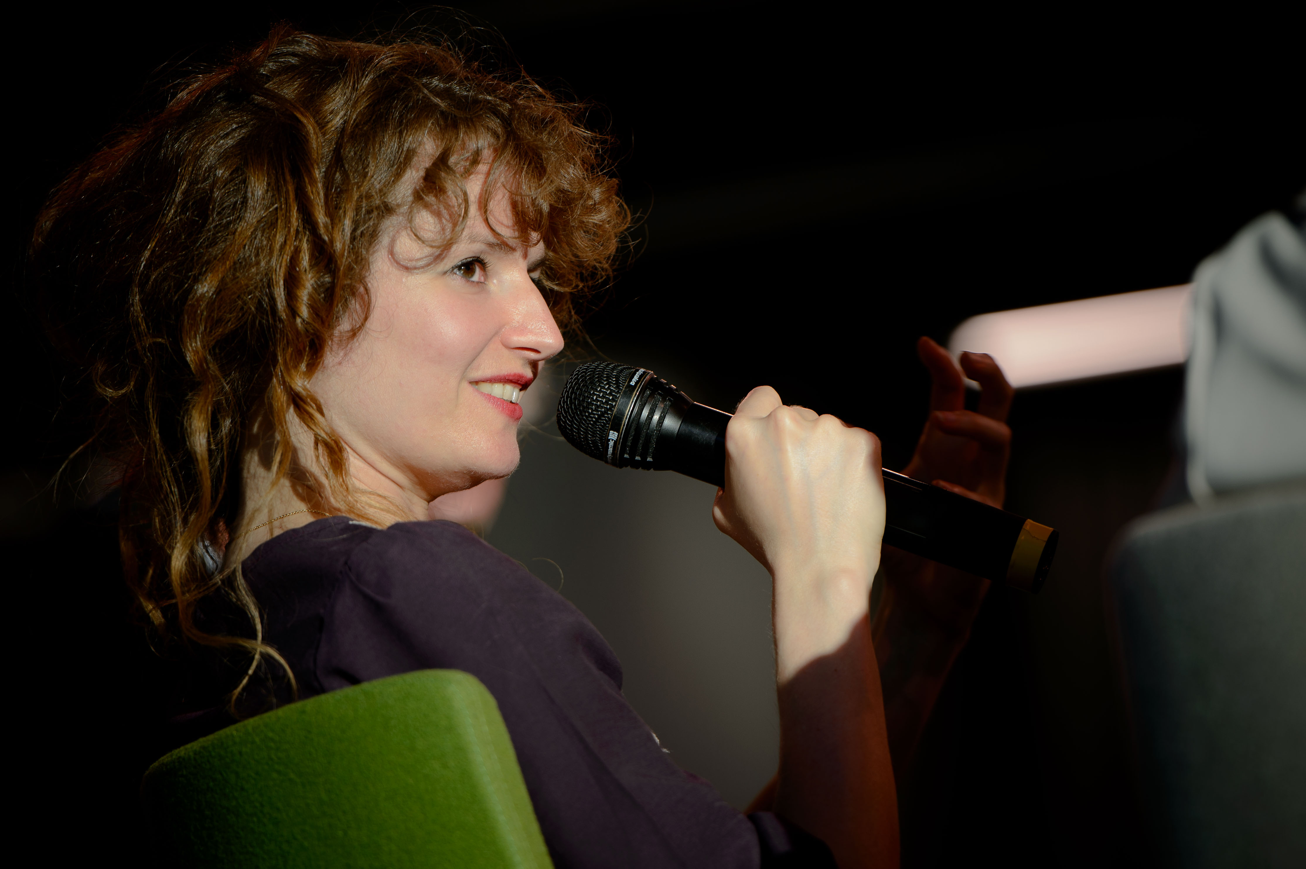 Sarah Diehl (Publizistin und Dokumentarfilmerin, Berlin) Foto:Stephan Röhl